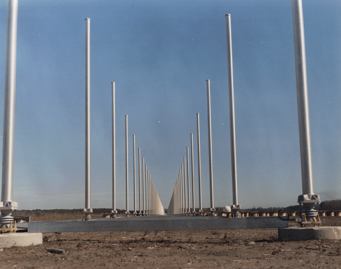 US Navy AN/TPS–71 Relocatable Over-the-Horizon Radar (ROTHR) station